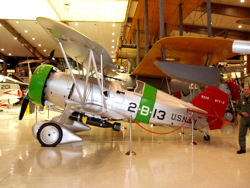 This beautifully restored plane at the National Naval Aviation Museum at Pensacola is actually a former Royal Thai Air Force Curtiss Hawk III. The cowling and three blade prop are a giveaway.